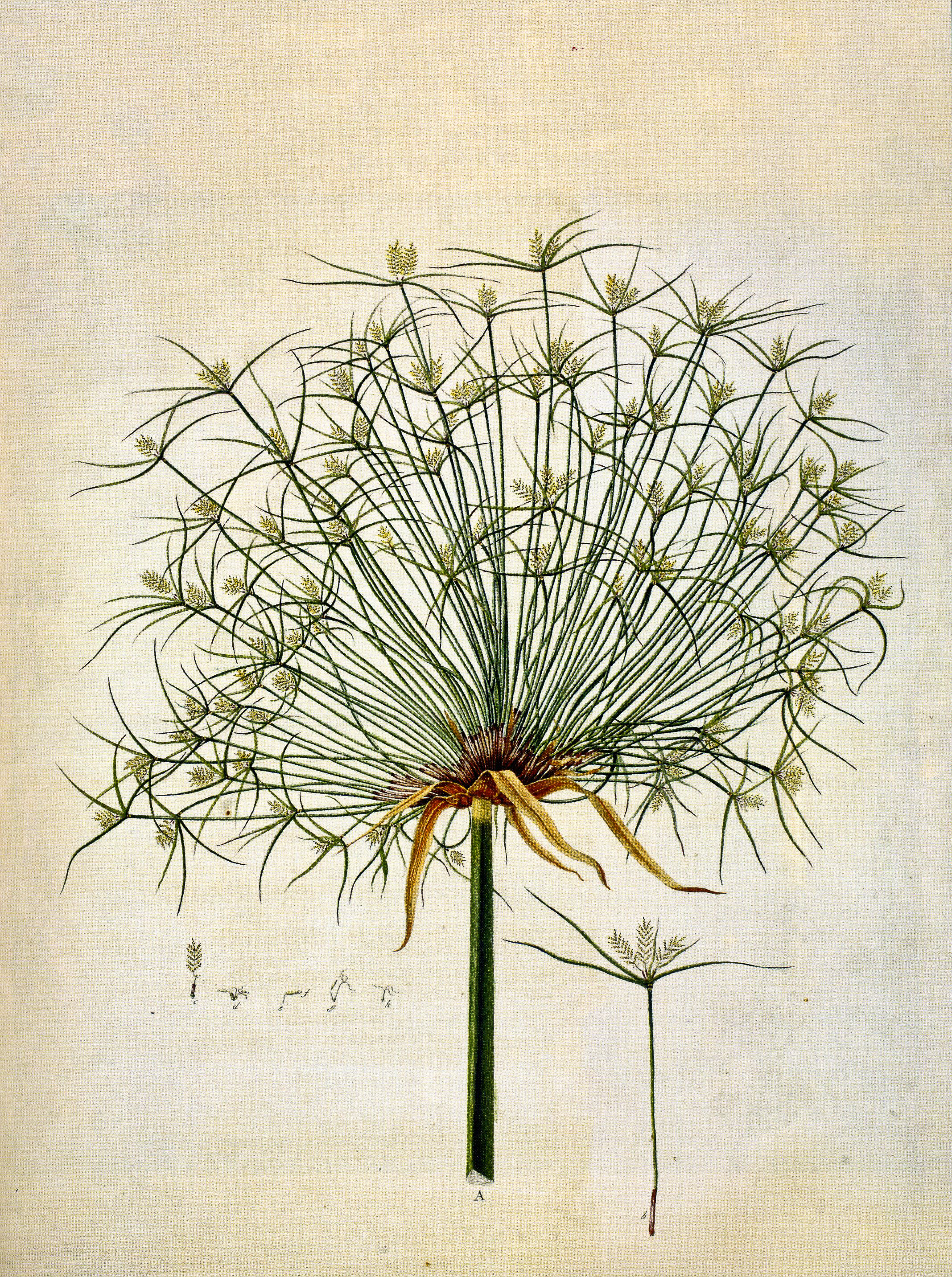 Cyperus Papyrus. Painting by Domenico Cirillo. Typis bodonianis. Parma, 1796. Patrimonio Nacional.